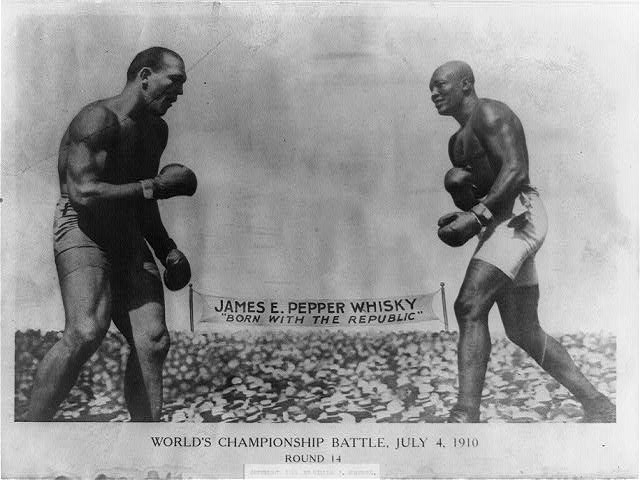 James J. Jefferies (left) and Jack Johnson boxing champianship, round 14. 1910, Reno, Nevada. Banner advertising whisky seen in background.